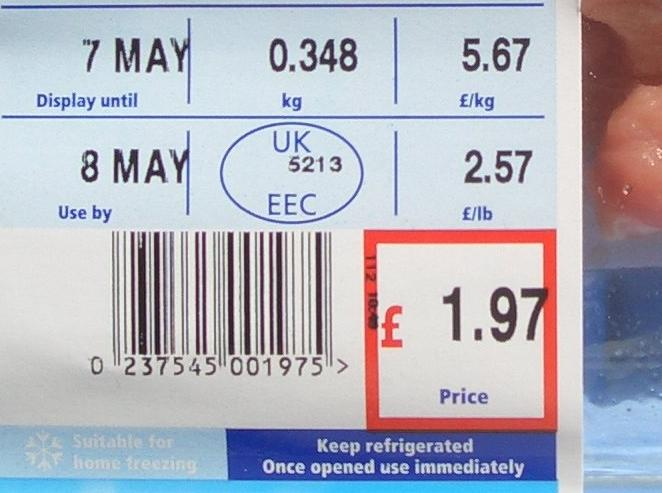 Zoom in on an use by-product